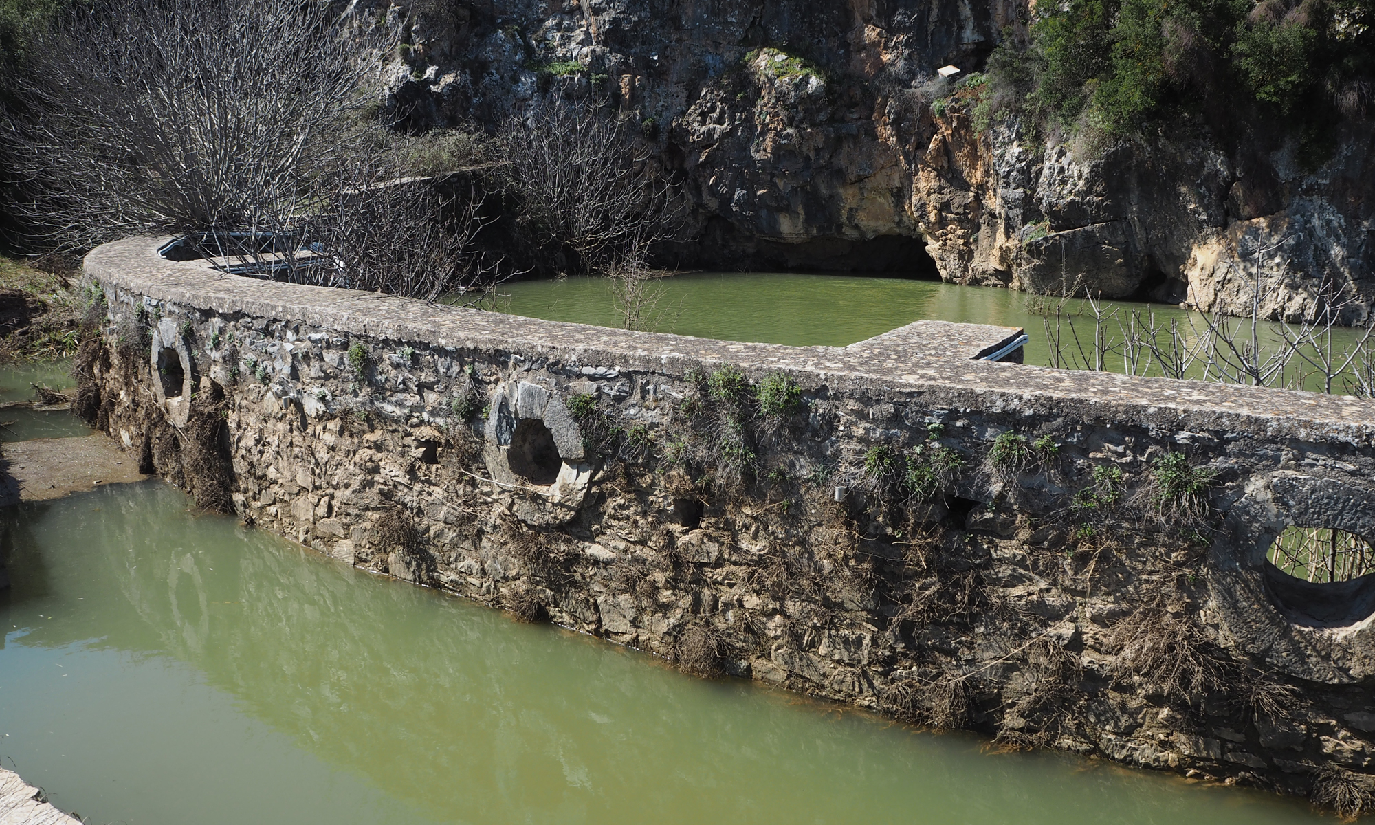 Ponor (καταβόθρα) of Kapsia. At the rocky border of the 30 km large karst plain, part of the Tripoli Plateau, in the high lands of Arcadia, Peloponnese. The karst plain is a tectonically created closed, intra mountainous basin, that has no surface drainage. Instead ca. 30 (!) active and inactive ponors around the rocky borders of the basin have to drain through subsurface joints in the tectonically shattered layers of karstic limestone rock towards the Argolic Gulf. In strong winters, rain waters often flood the plain and the subsurface waterway cannot drain rapidly enough – this happens even in our times. The photo was taken in March of 2019.